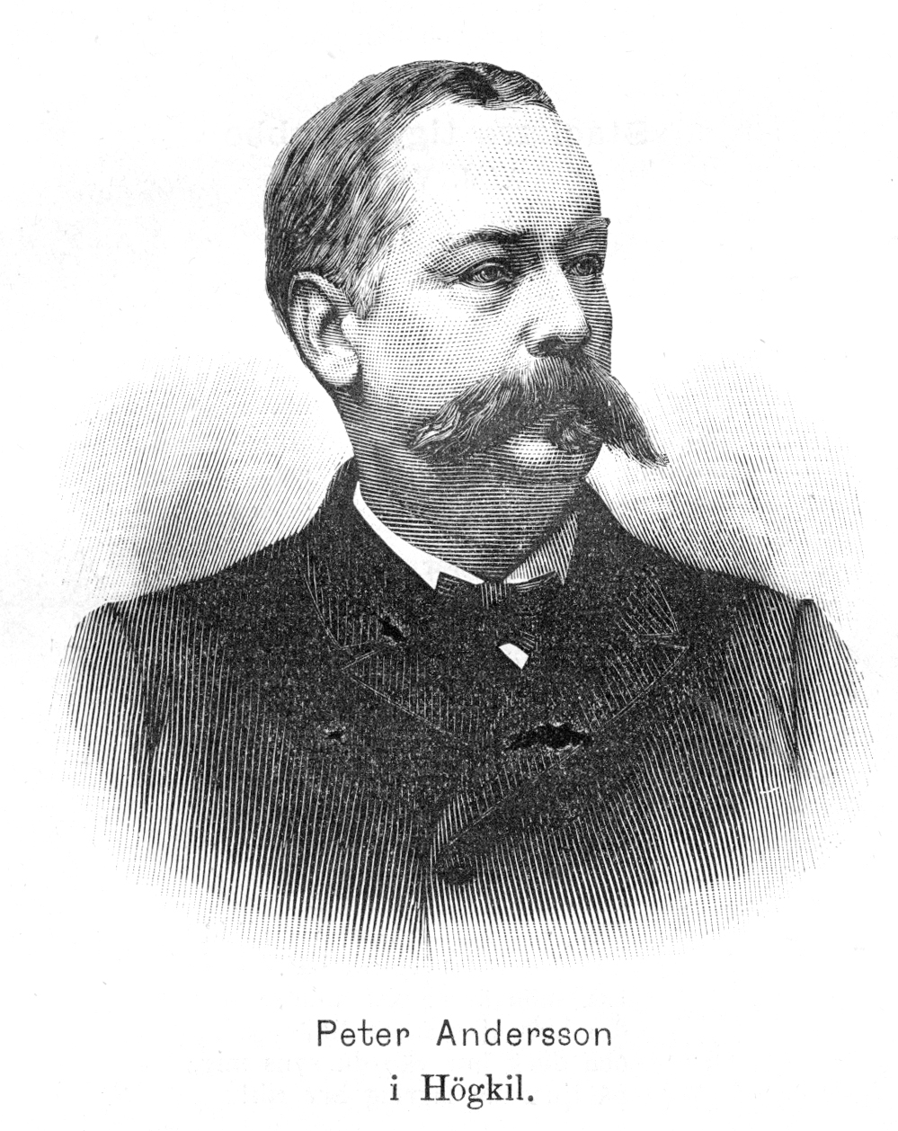 Peter Andersson